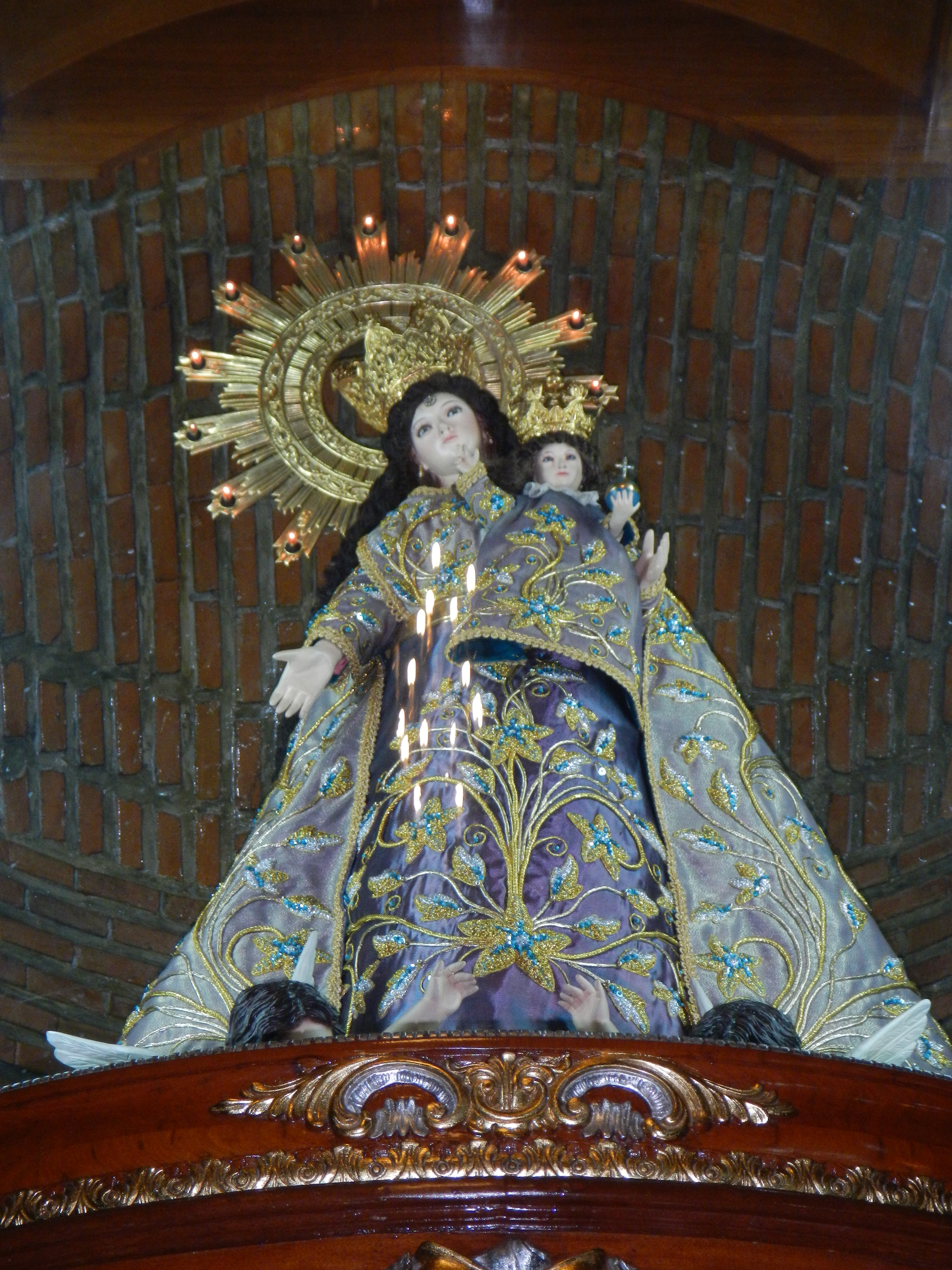 Nuestra Señora del Pilar de Imus The patroness of the city and diocese of Imus, Our Lady of the Pillar, at the altar of the Imus Cathedral, Cavite in the Philippines. [Photographer's Notes: I took the photos of the Imus Cathedral with my Nikon AW100 camera starting from 1:39 pm under cloudy and rainy conditions. For the interior shots, I asked the personnel in-charge of the Cathedral to turn on all the lights upon the approval of the Parish Office. Only 2 or 3 people were inside with nothing to block my photos. Photography of the cathedral finished at 4:18 pm and uploading via slow internet connection was started at 7:54 pm. I hereby certify that these photos are exclusively for Commons and Wikipedia, never uploaded in any Internet or any other sites, and for public domain without any conditions.]